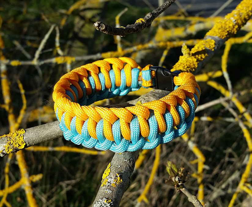 Survival bracelet with tying "Genoese"